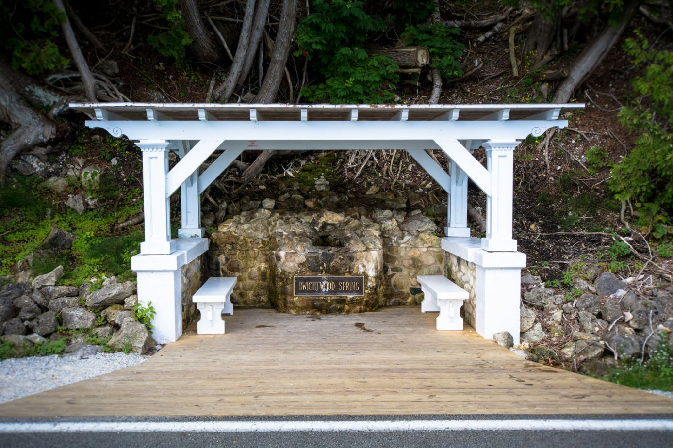 Dwightwood Spring is a natural, fresh-water spring located on Mackinac Island. The water runs year round at about 45 °F (7 °C). It is located approximately 1.5 miles (2.4 km) east from the center of the town right on the main road around the island.